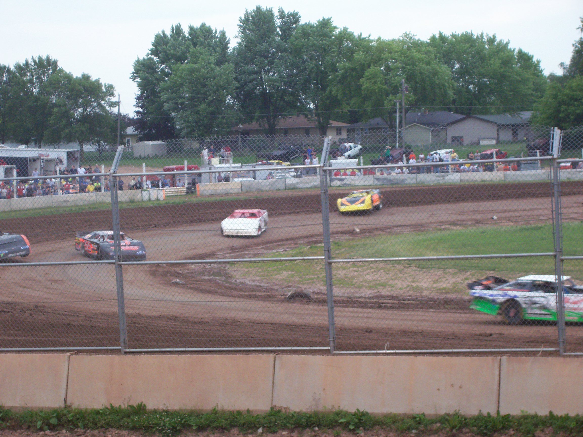 I took this photograph myself. The photograph was taken on July 8, 2006 at Plymouth Dirt Track races at the Sheboygan County (Wisconsin, USA) fairgrounds. The dirt Late Model class drivers show how dirt track car drivers slide their car's backend around through a corner. The multiple drivers show the car angle at different points in a corner.